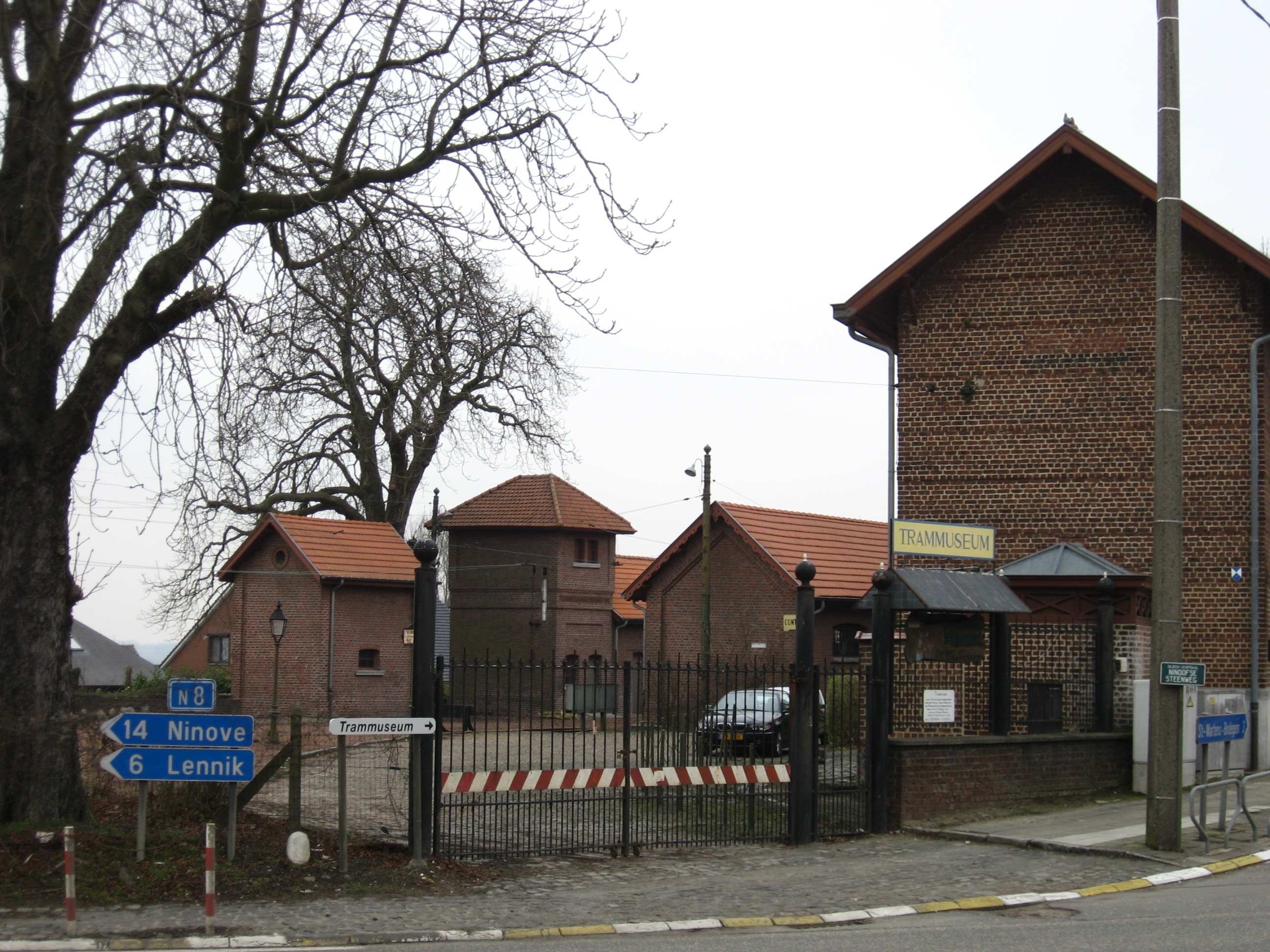 Entrance to the vicinal railway museum in Schepdaal. It used to be a vicinal railway depot. It is closed due to renovation works.